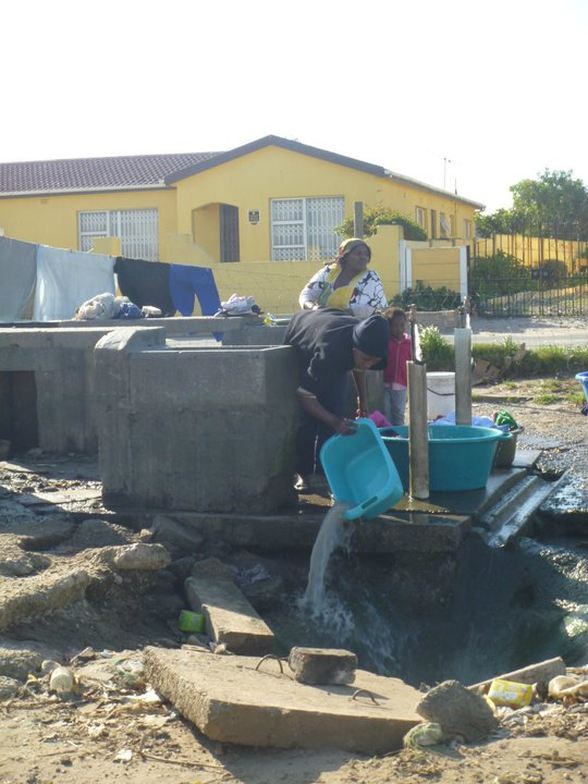 The one water pump within a section of the township